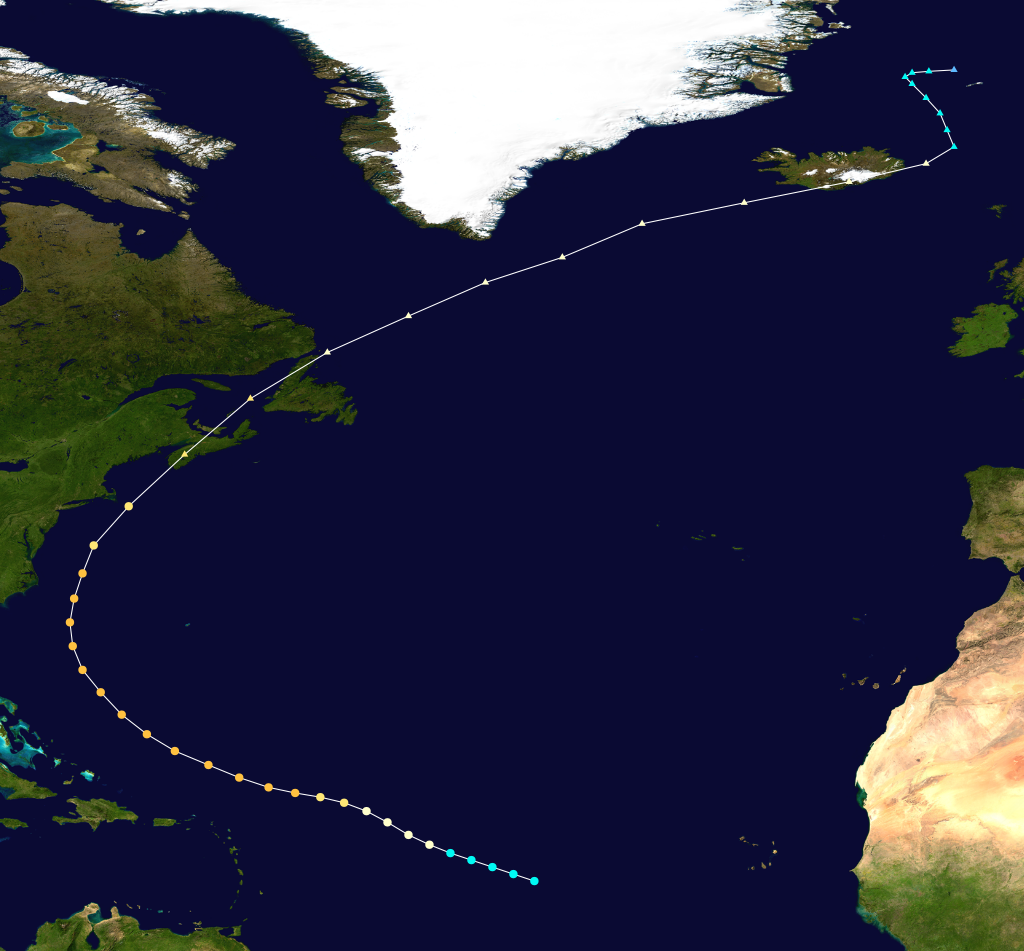 1927 Atlantic hurricane 1 track.png track. Uses the color scheme from the Saffir-Simpson Hurricane Scale.